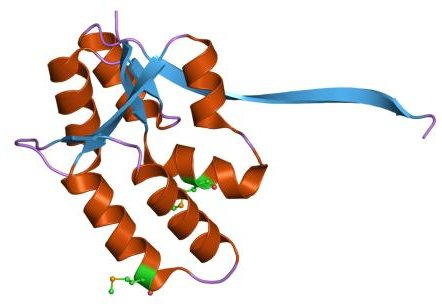 Cartoon representation of the molecular structure of protein registered with 1o4w code.